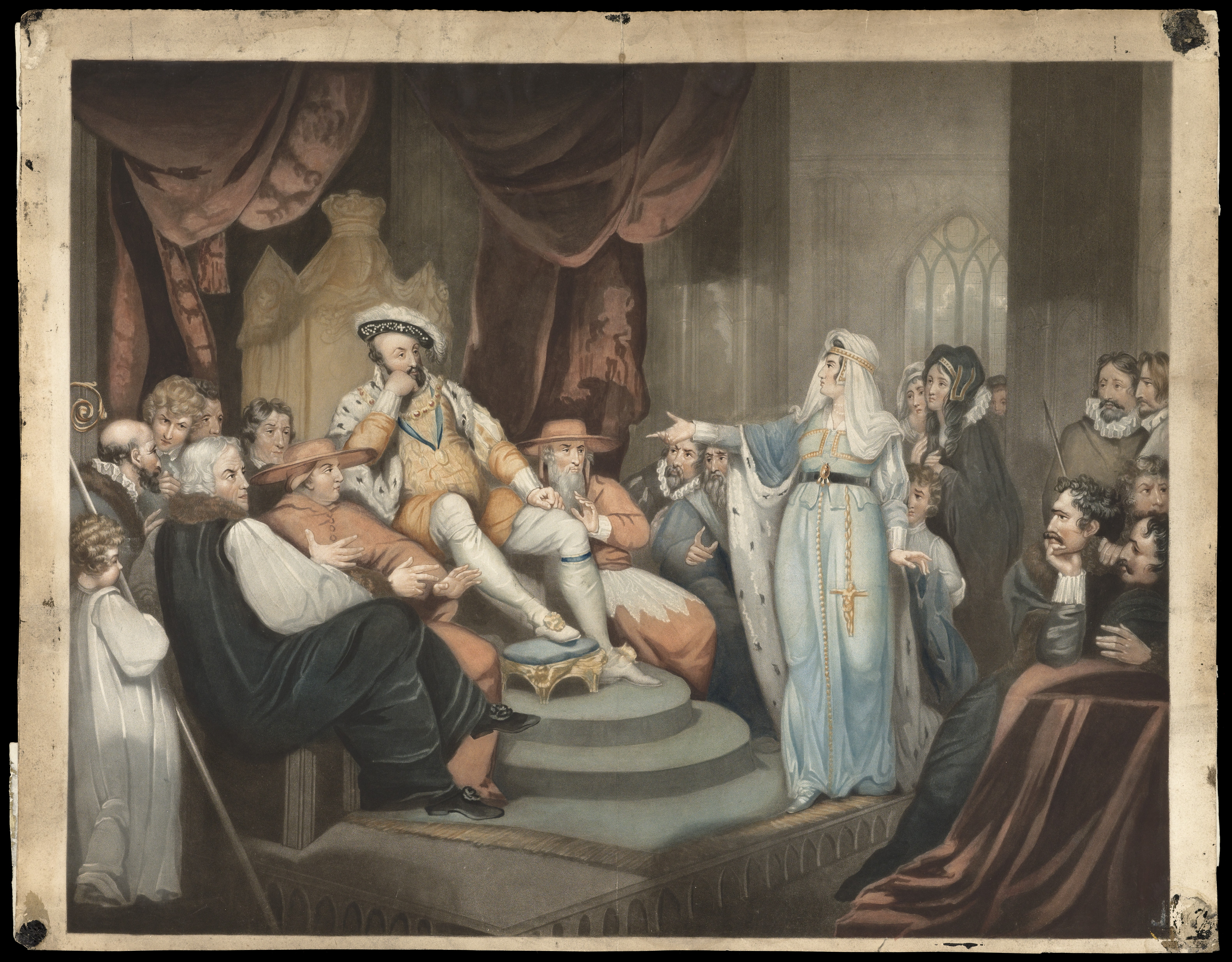 Catharine of Aragon pleading her cause before King Henry VIII. Iconographic Collections Keywords: Henry VIII; William Ward; Richard Westall; Catherine of Aragon